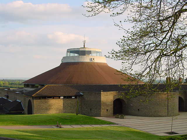 Our Lady Help of Christians church, Worth Abbey, West Sussex